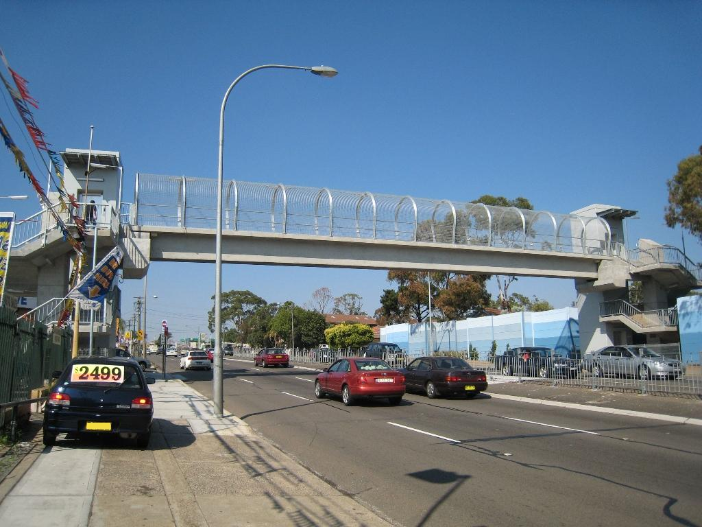 Pedestrian footpath/bridge linking both sides of Hume Hwy. Picture taken by myself.